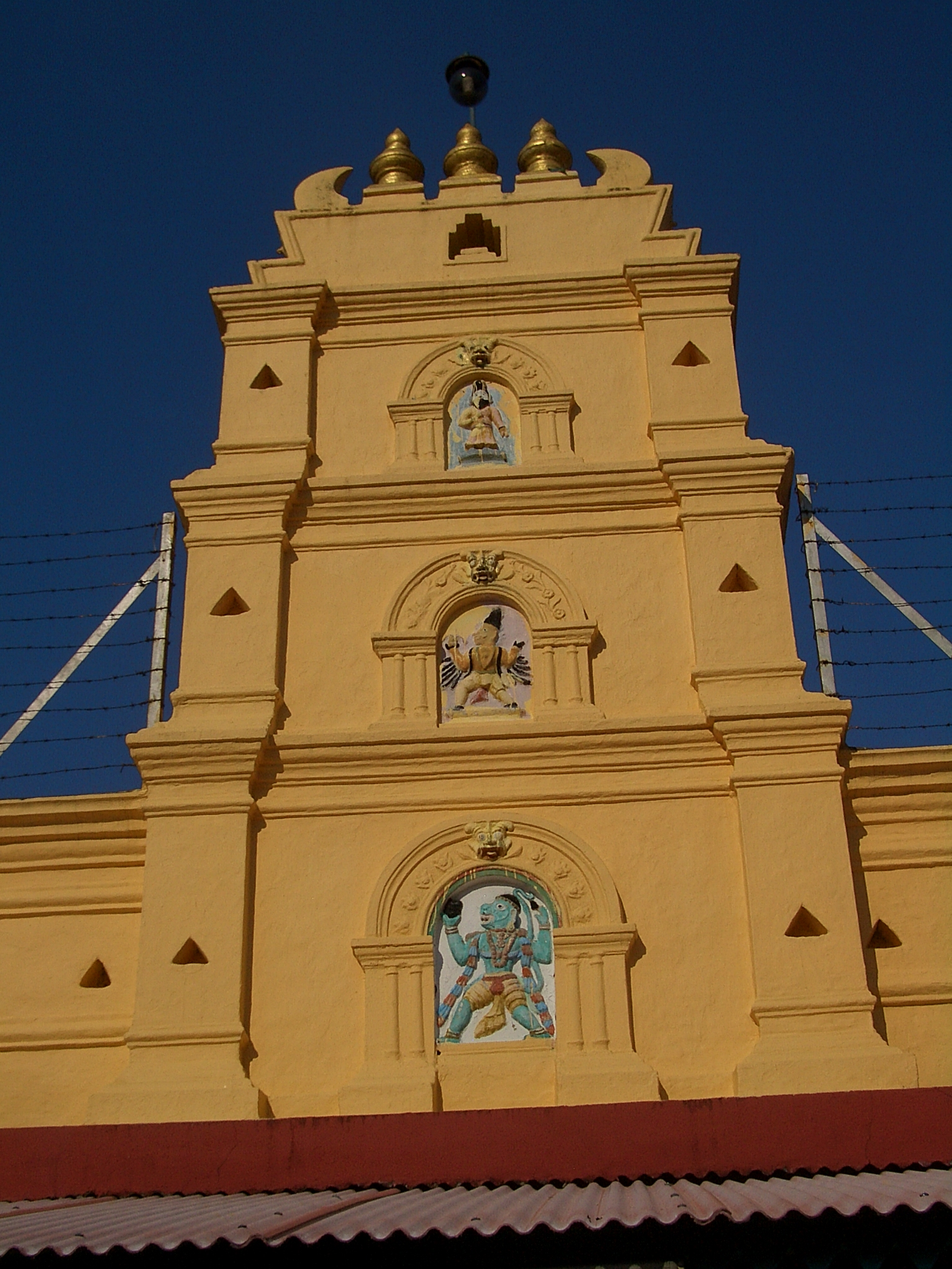 Sri Poyyatha Vinayagar Moorthi Temple, in Melaka's Jln. Tokong